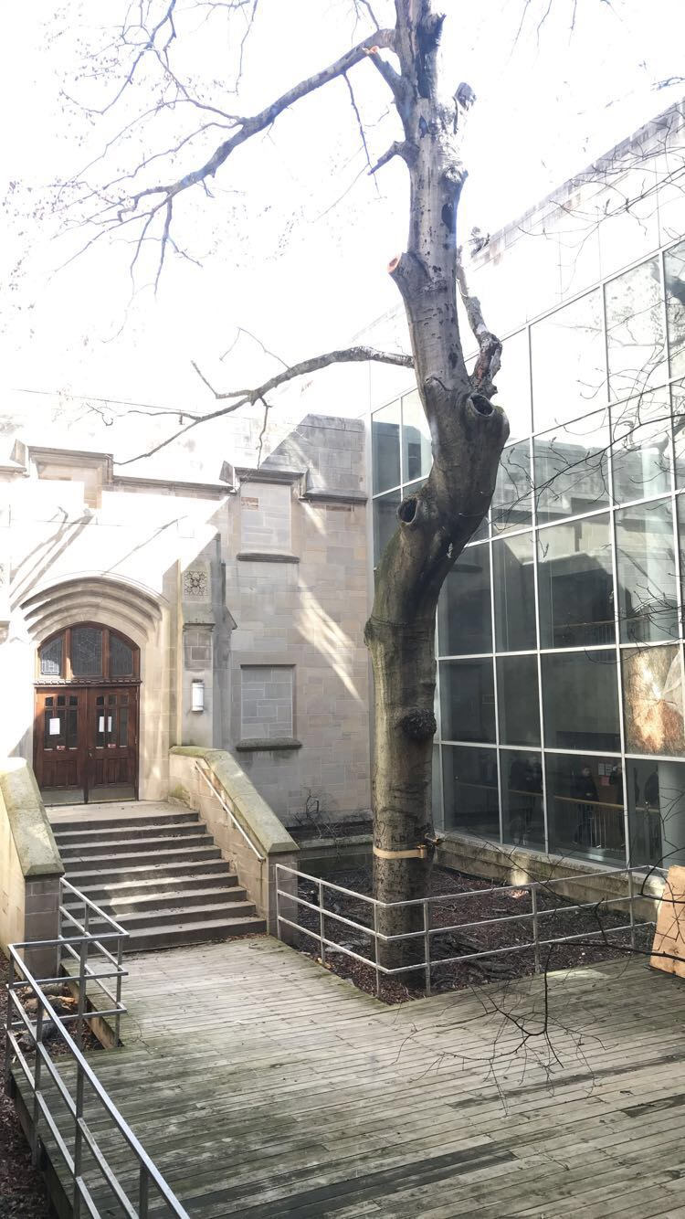 Sweetheart tree standing in the courtyard of the Chemistry building at Indiana University Bloomington.